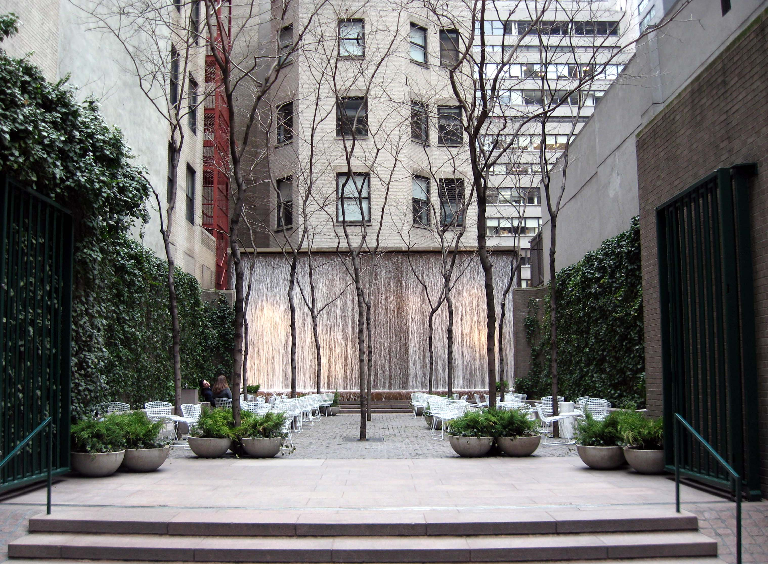 Paley Park on a cloudy, chilly late winter afternoon